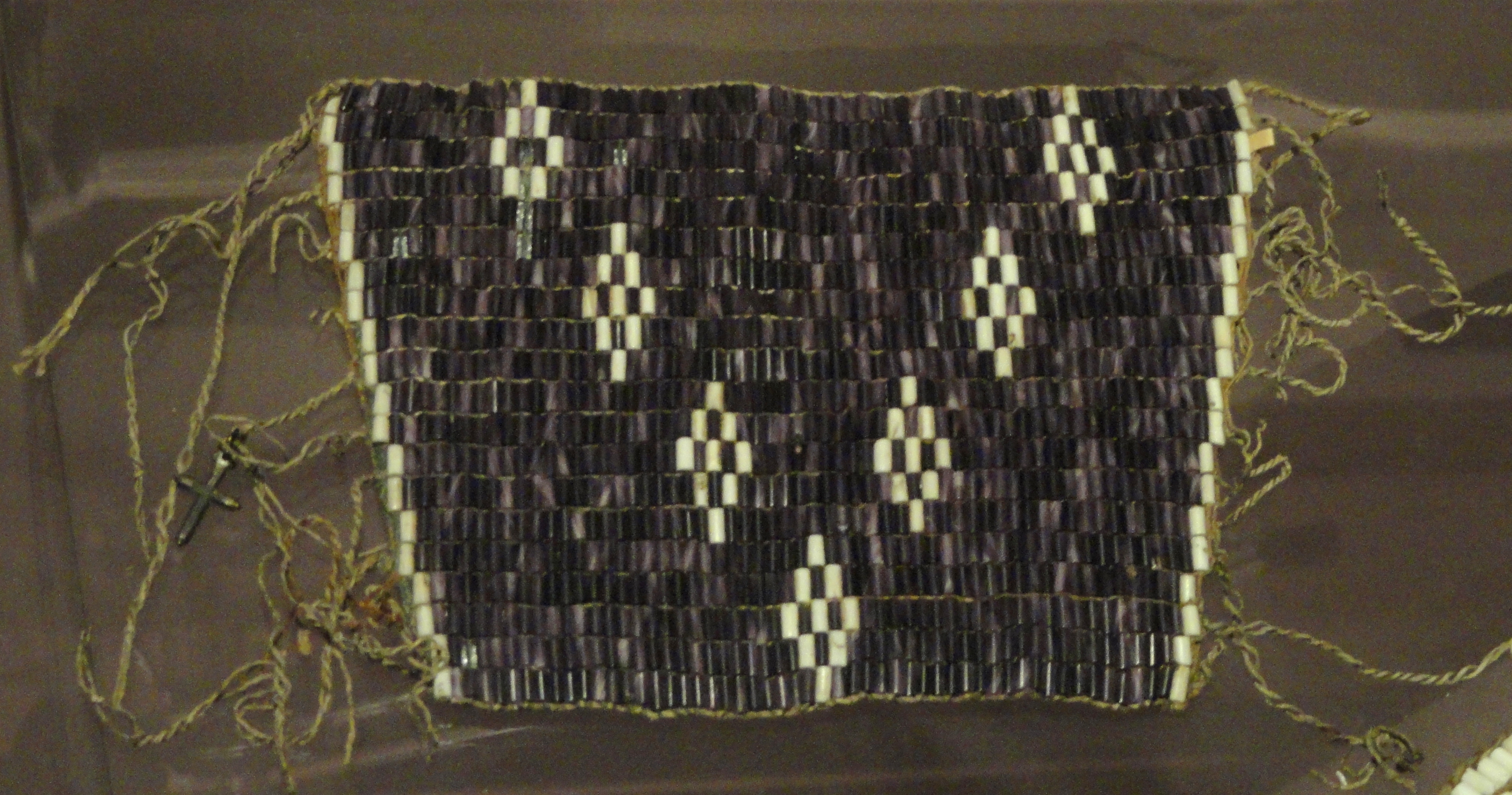 Wampum wrist ornament, probably Iroquois, 18th century. Exhibit from the Native American Collection, Peabody Museum, Harvard University, Cambridge, Massachusetts, USA. Photography was permitted without restriction; exhibit is old enough so that it is in the public domain.